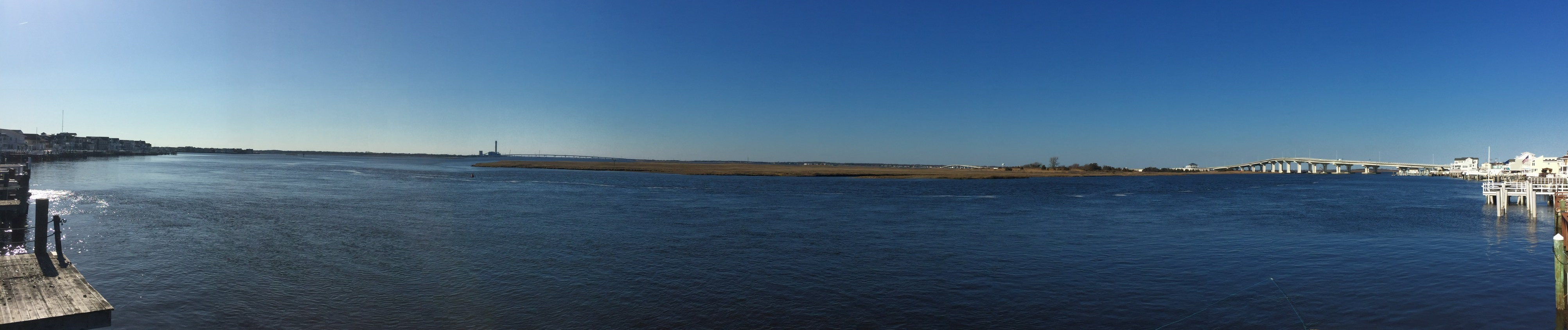 Panoramic image of Great Egg Harbor Bay from 12th Street in Ocean City. Also visible is B.L. England Power generating station, the Garden State Parkway bridge, Somers Point, the New Jersey Route 52 bridge, and Cowpens Island.